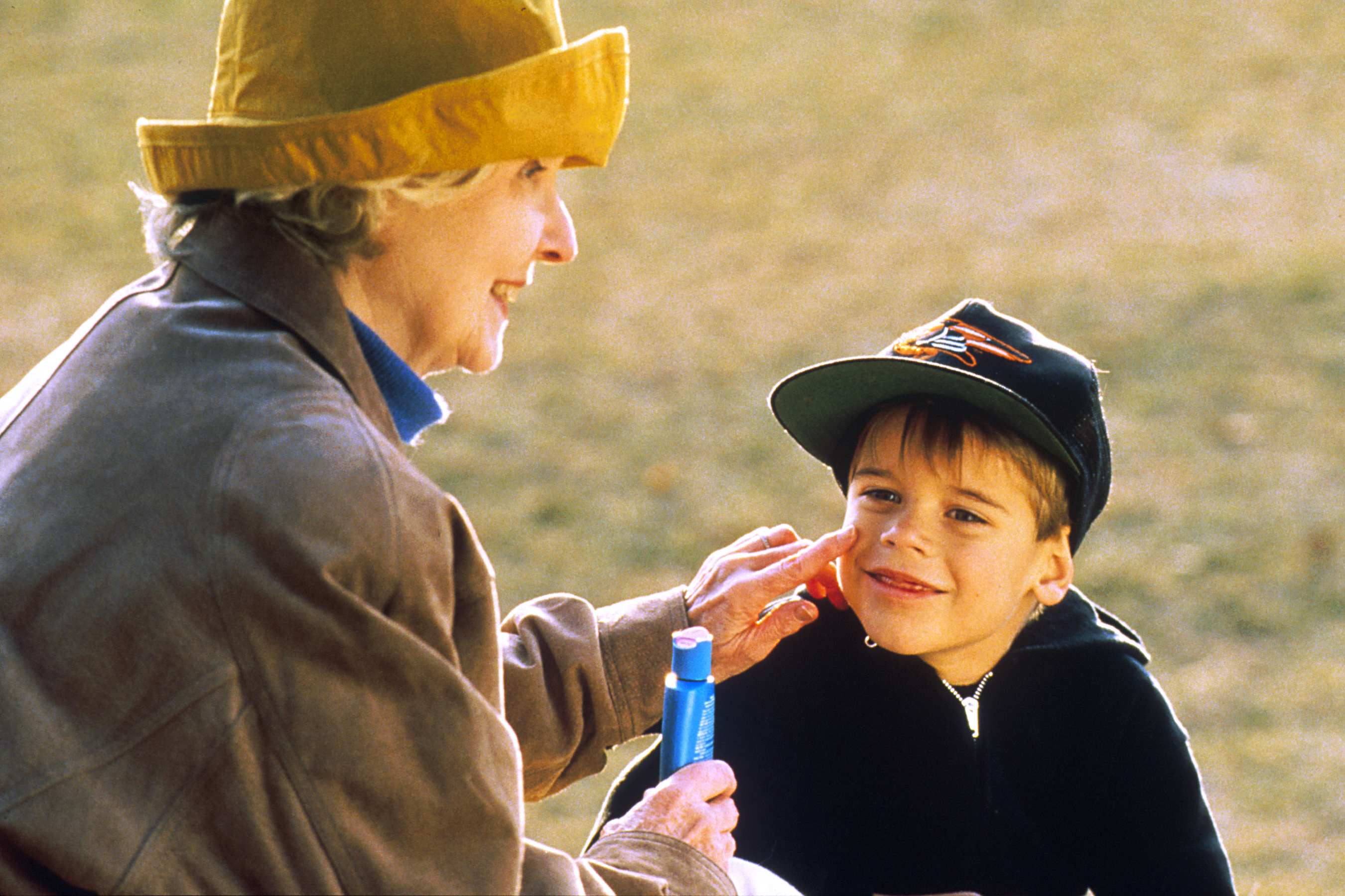 Title Applying Sunscreen Description An older Caucasian women applying sunscreen to young Caucasian child. Topics/Categories Locations -- Nature/Outdoors People -- Adult People -- Child Type Color, Photo Source National Cancer Institute